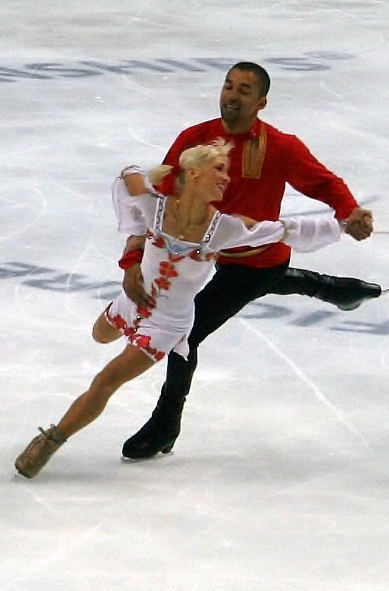 Aliona Savchenko and Robin Szolkowy at the 2011 World Figure Skating Championships